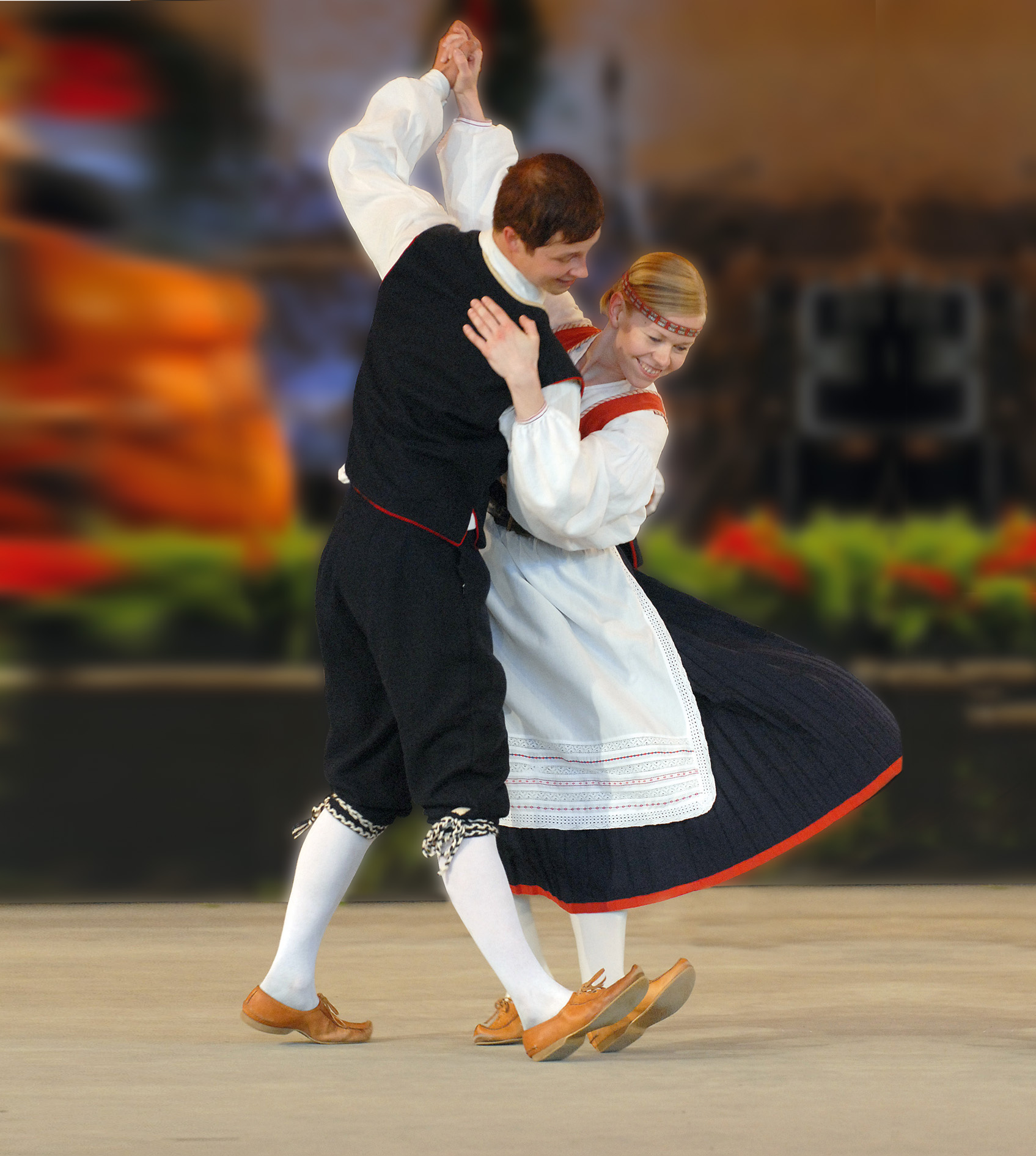 Kipakkaa polkkaa (Rimpparemmi)